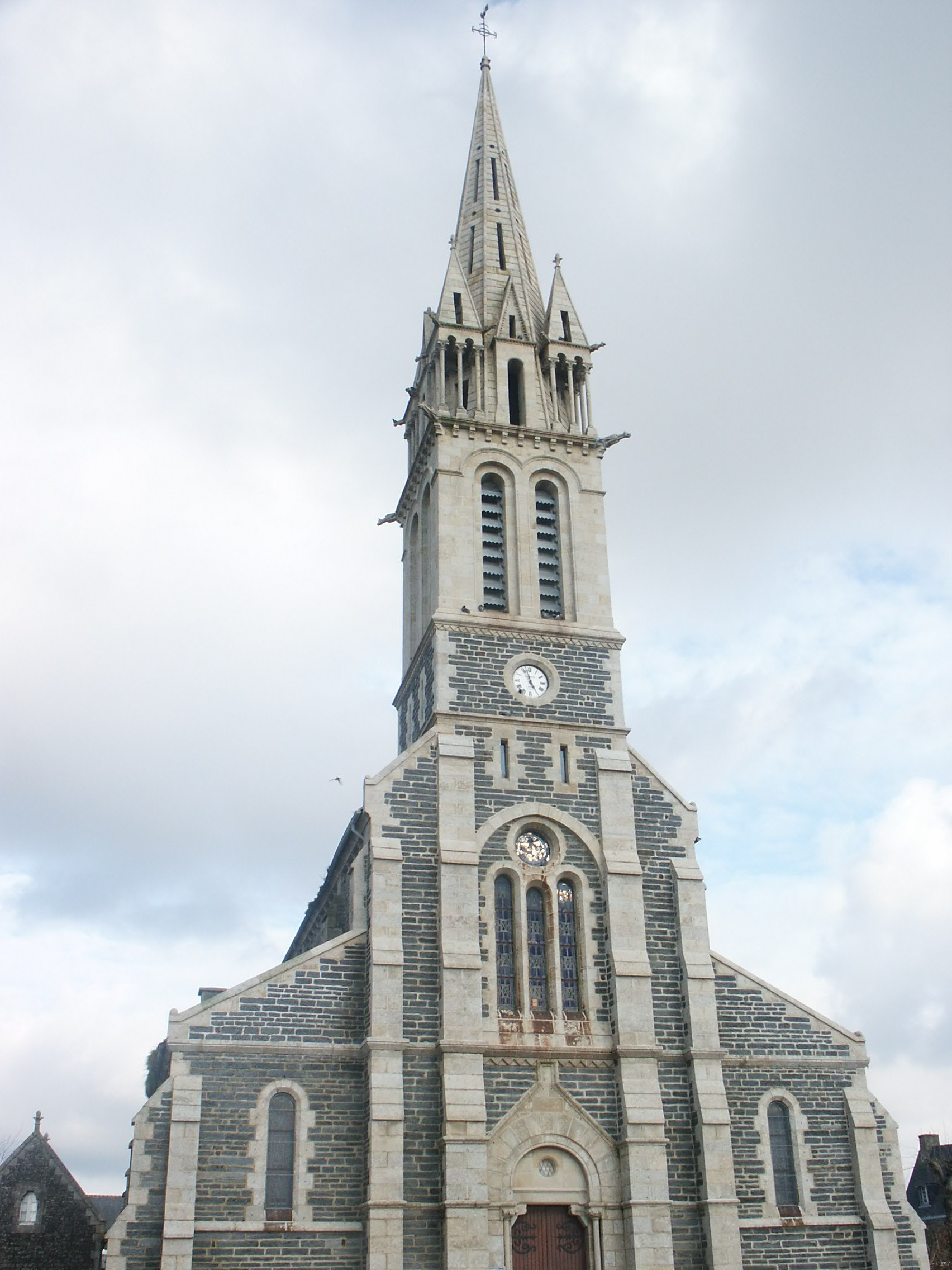 Saint Pierre church of Taulé, Finistère , France